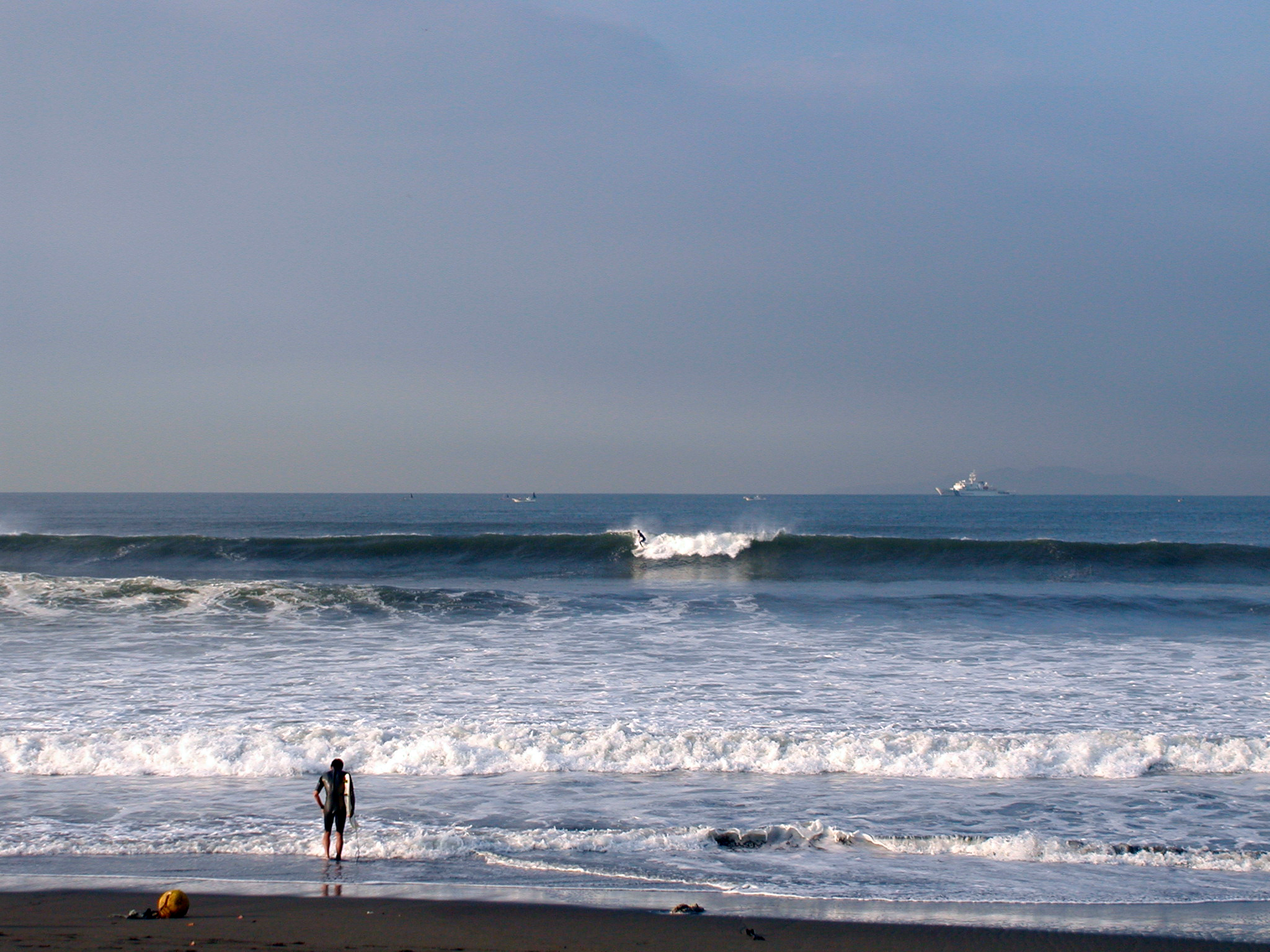 Tsujidō Beach.